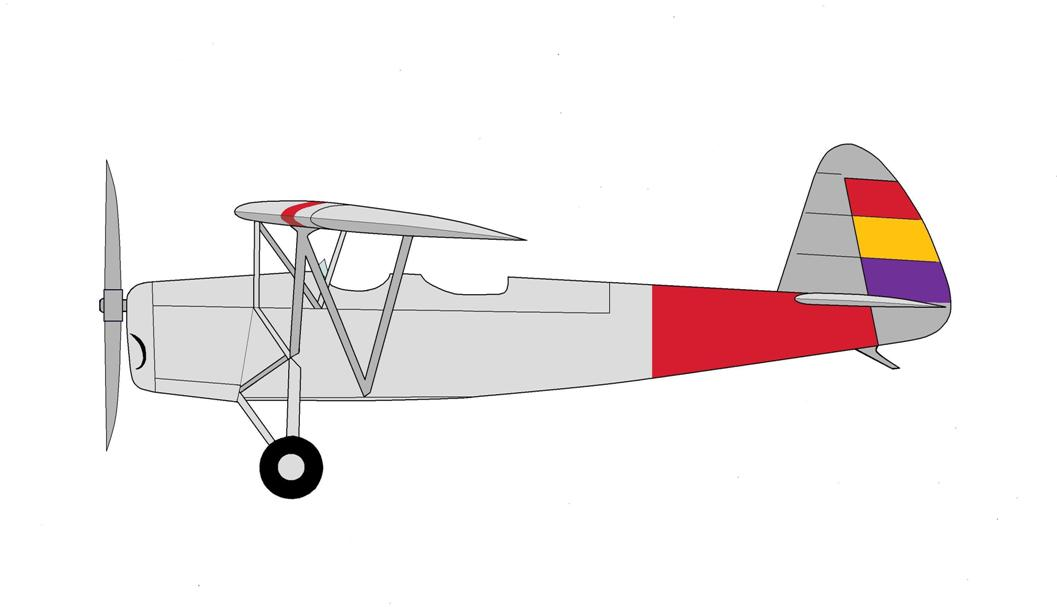 Morane-Saulnier MS.341 trainer of the Spanish Republican Air Force training facility at Santiago de la Ribera. 1937.